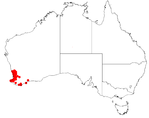 Leucopogon pulchellus occurrence data from Australasian Virtual Herbarium downloaded 31 August 2019 using